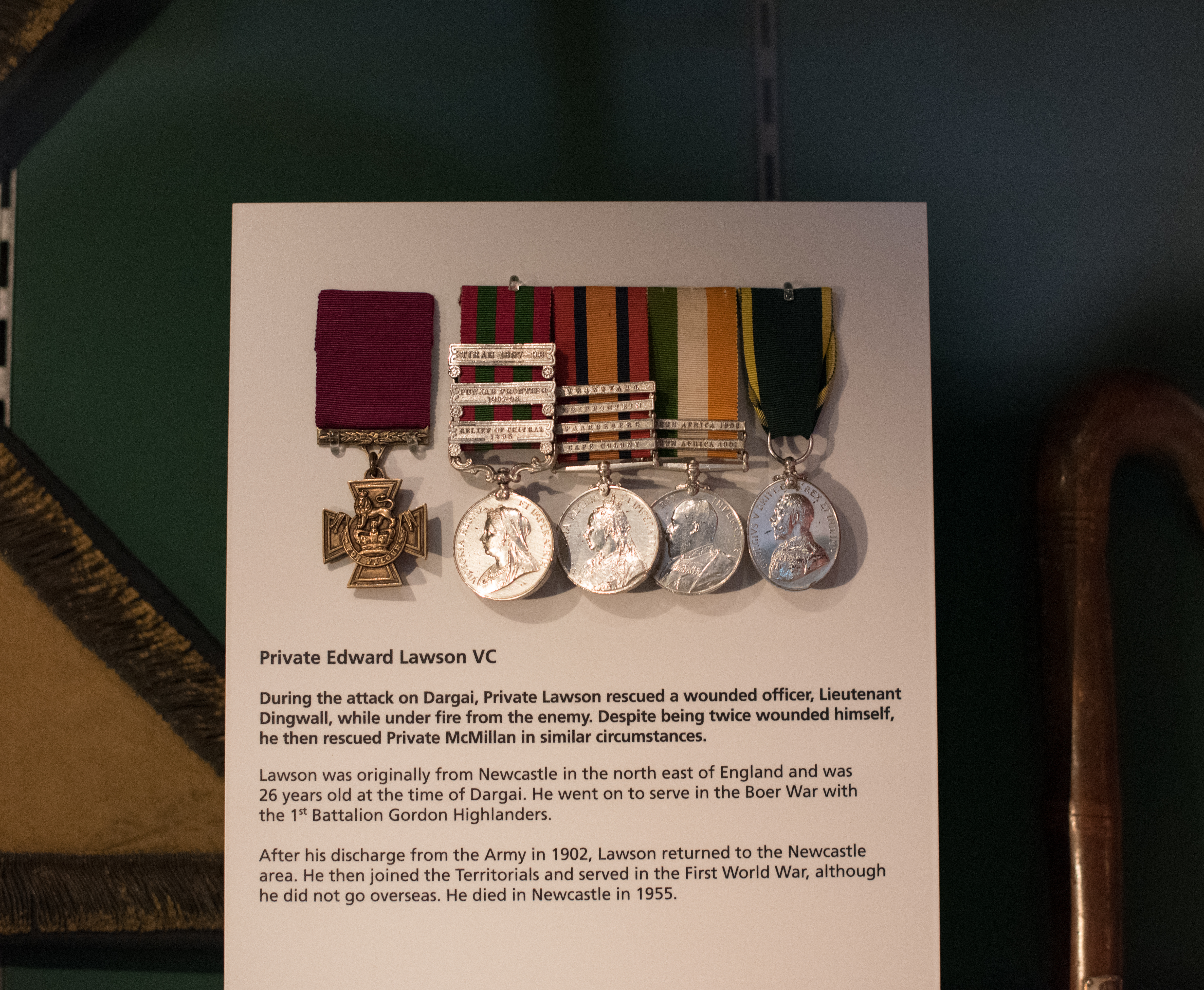 Medals of Private Edward Lawson VC displayed at the Gordon Highlanders Museum, Aberdeen Scotland. Medals from left to right: Victoria Cross India Medal Queen's South Africa Medal King's South Africa Medal Territorial Efficiency Medal